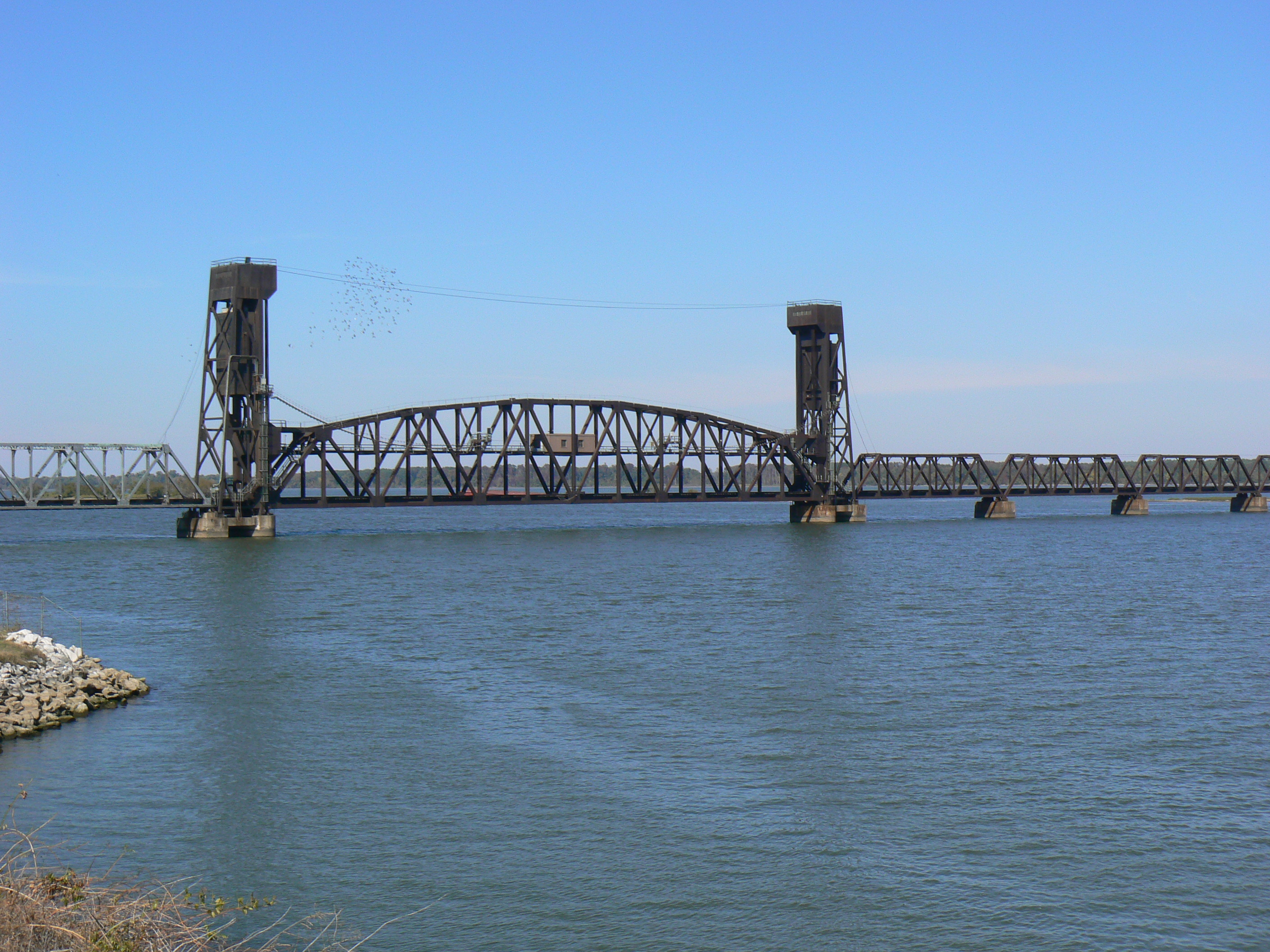 Self taken picture of the Norfolk Southern Bridge over the Tennessee River. Norfolk Southern Tennessee River Bridge (Decatur).